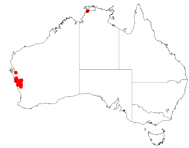 Acacia comans Occurrence data from Australasia Virtual Herbarium downloaded from on 8 December 2018